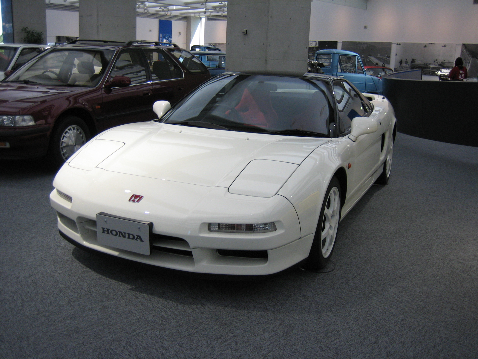 I photoed Honda NSX Type R in the Honda collection hole.